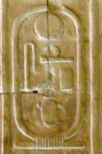 Cartouche 59, Abydos King List. Temple of Seti I, Abydos, Egypt